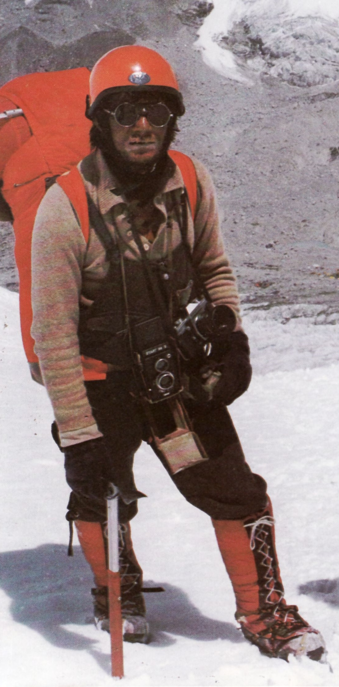 Jerzy Kukuczka and Andrzej Czok during 1980 spring expedition to Mount Everest.